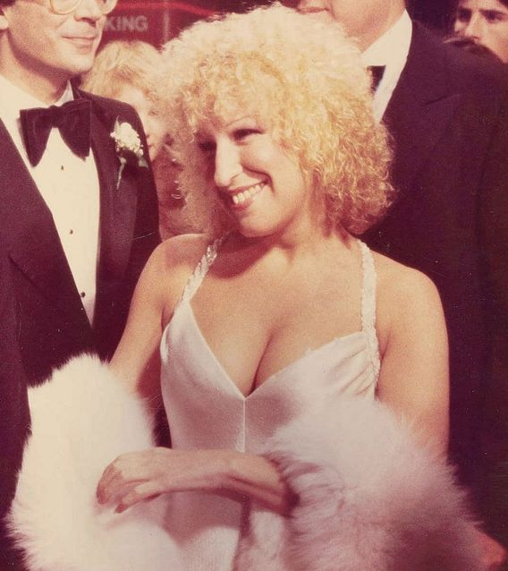 actress/singer Bette Midler at the premiere of Midler's movie "The Rose".